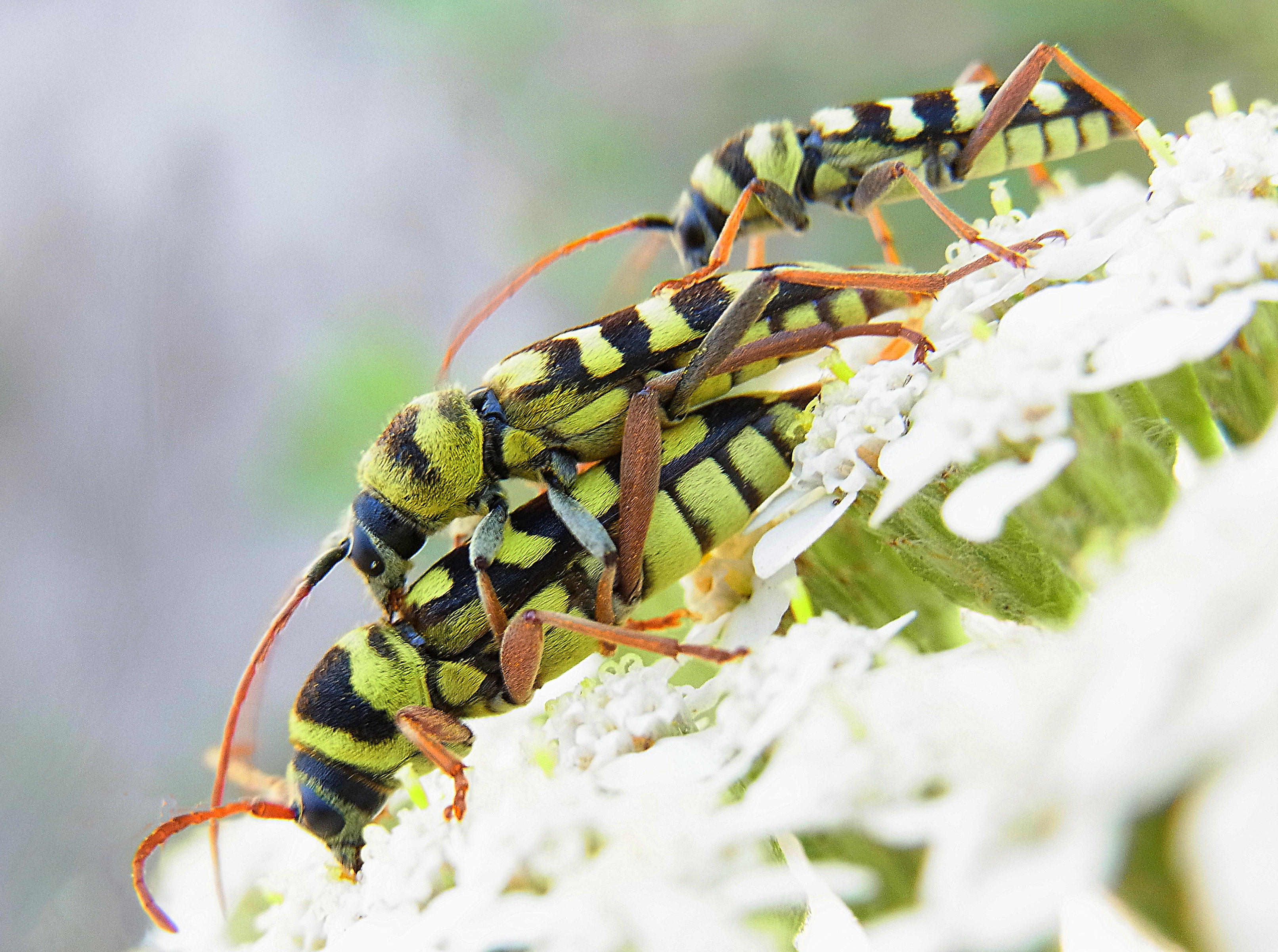 Plagionotus floralis from Hungary, Kiskunmajsa, at 2012-06-09